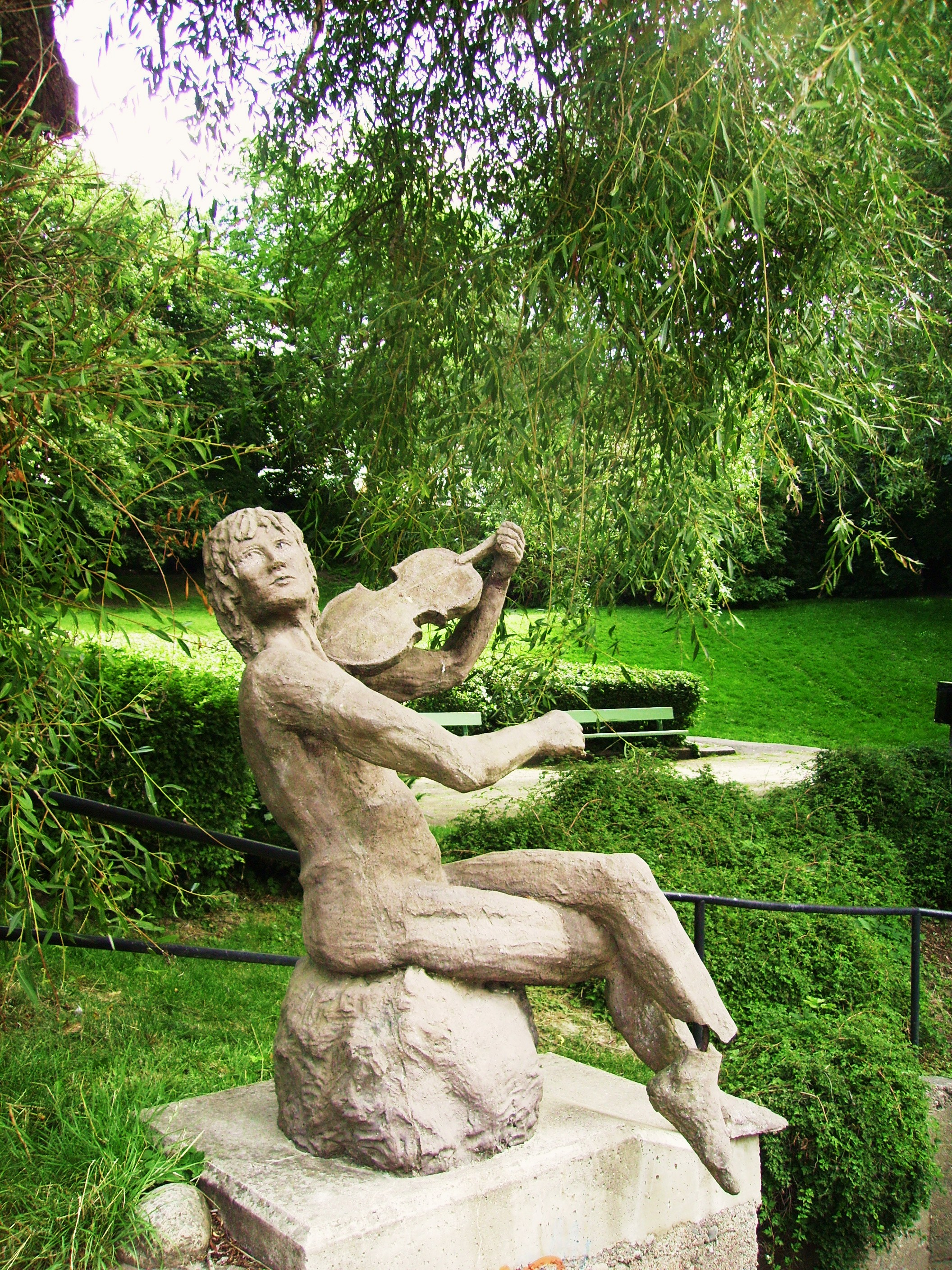 Picture of statue of Näcken in Nyköping. By Storhusqvarn, Västra Kvarngatan 64. Artist: Bernt Westerlund